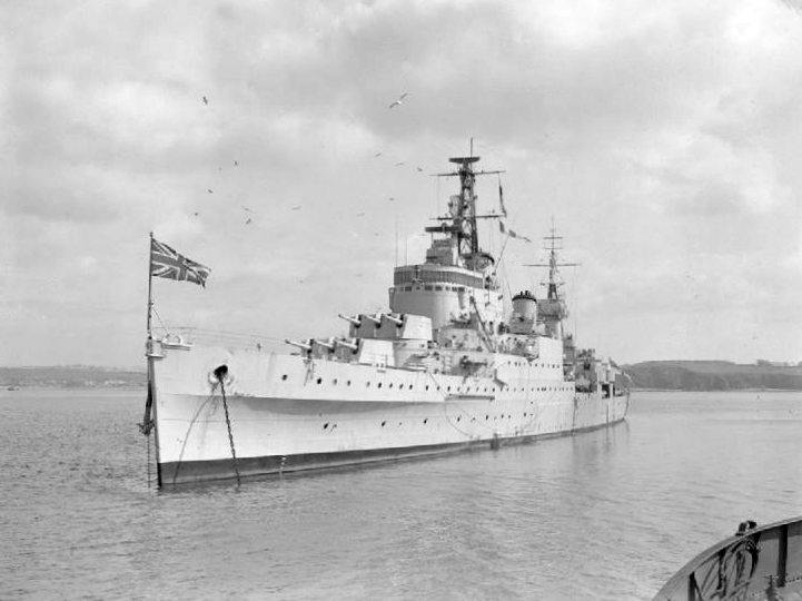 The Royal Navy Town-class cruiser HMS Newcastle (C76) at anchor in Plymouth Sound (UK).